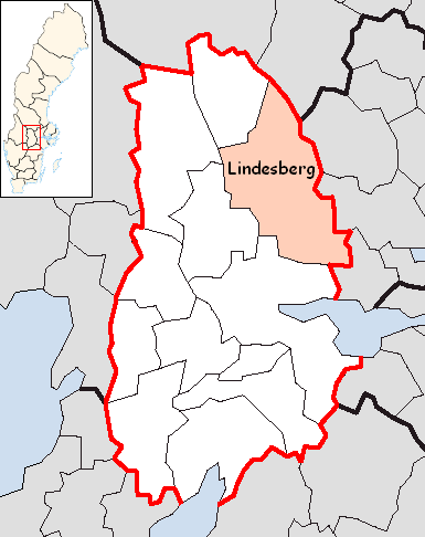 Lindesberg Municipality in Örebro County Designd by me, based on Image:Örebro County.png